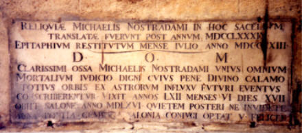 Nostradamus's tombstone in the Collegiale St-Laurent at Salon-de-Provence, Bouches-du-Rhône, France. The headstone, written in Latin and composed by his wife, reads as follows: "Here lie the bones of the illustrious Michel Nostradamus, alone of all mortals judged worthy to record events of the entire world with his almost divine pen, under the influence of the stars. He lived 62 years, 6 months, and 17 days. He died at Salon in the year 1566. Let not prosperity disturb his rest. Anne Pons Gemelle wishes her husband true happiness." Copyright (c) Peter Lemesurier 2006 Source: Self-made by me, Peter Lemesurier, 1997. For a higher-resolution version, contact me via my website. -- GNU Free Documentation License written by the Free Software Foundation . This was originally written to license free software documentation.